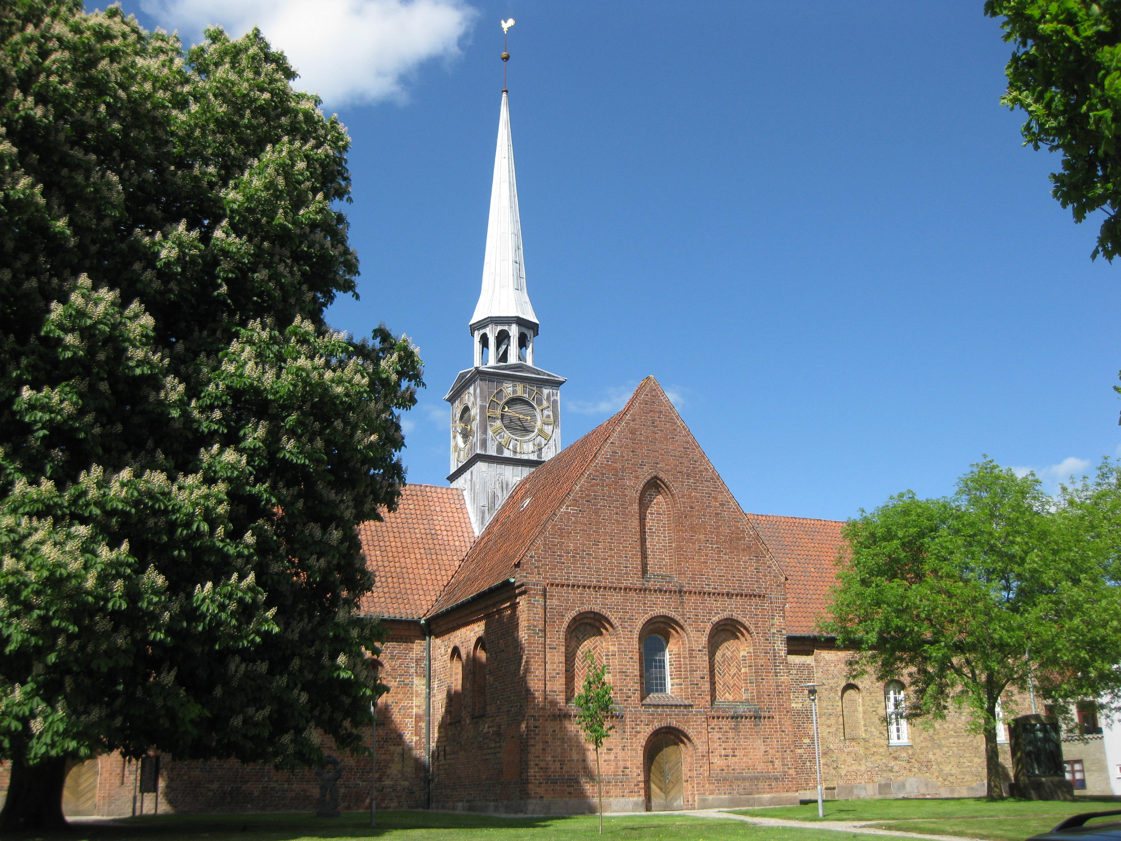 The church "Sct. Nicolai Kirke" in the town "Aabenraa". The town is located in Southern Jutland, Denmark.